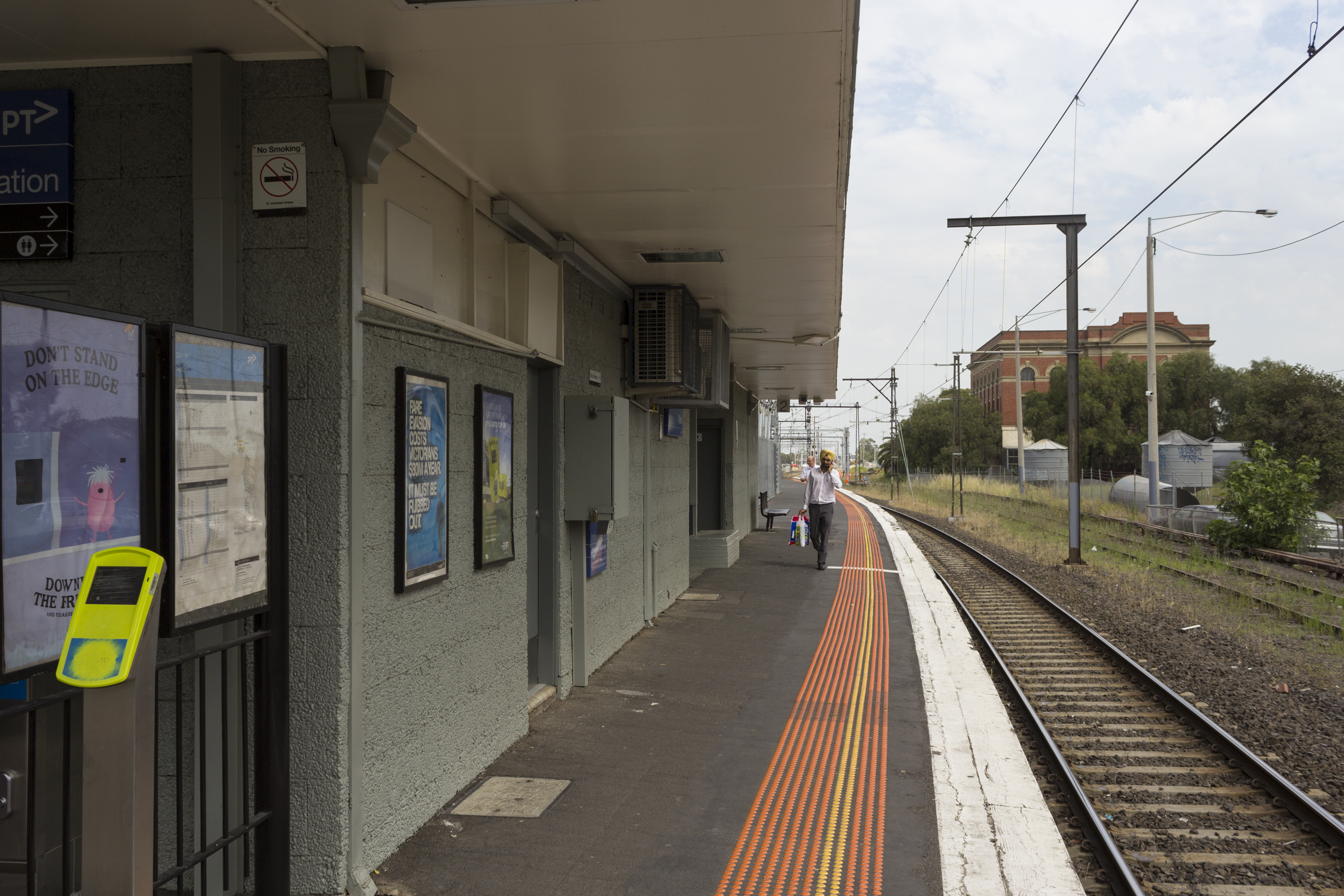 Albion railway station platform 1, 2013.